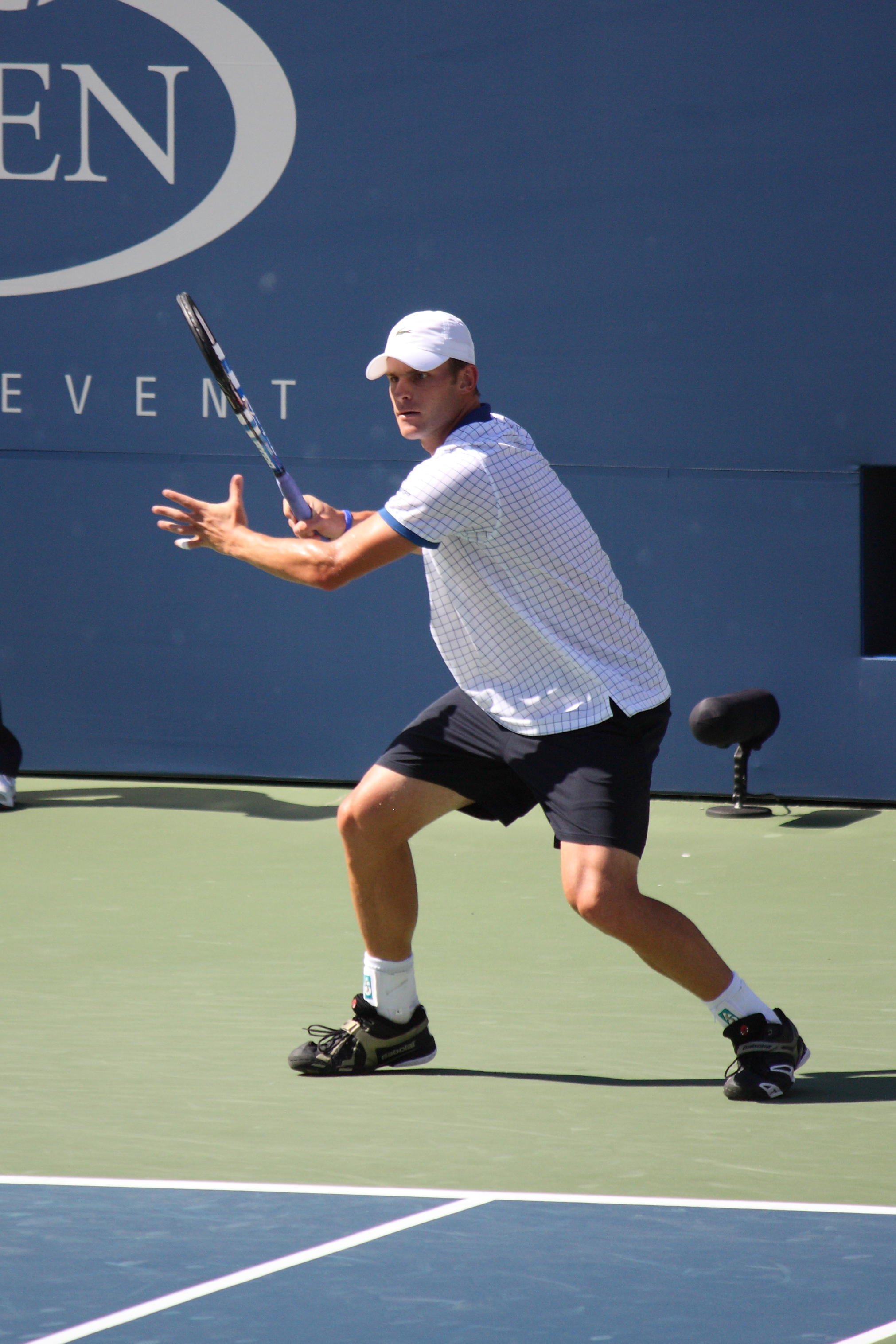 Andy Roddick during first round of US Open 2010 match at Ashe Stadium